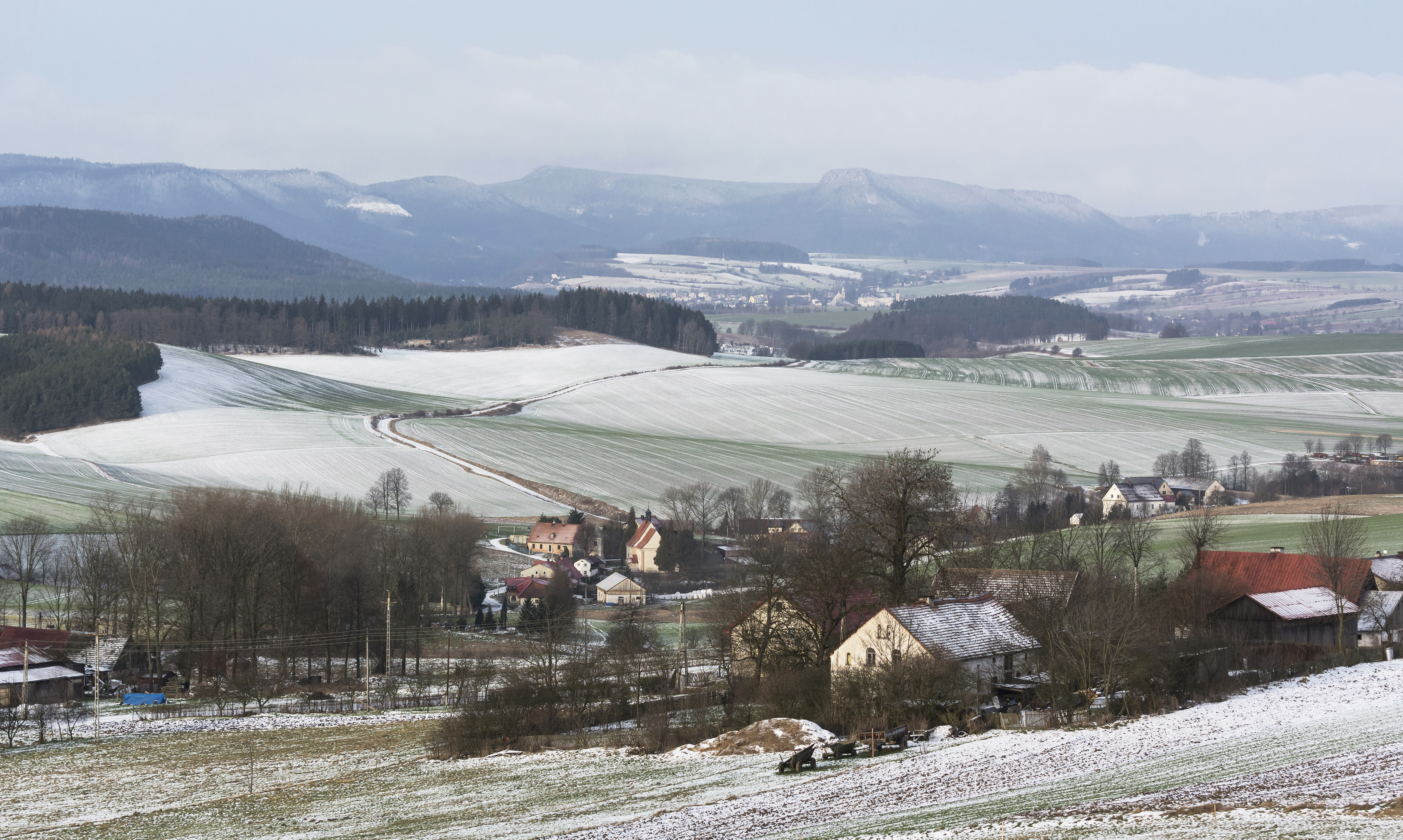 Suszyna